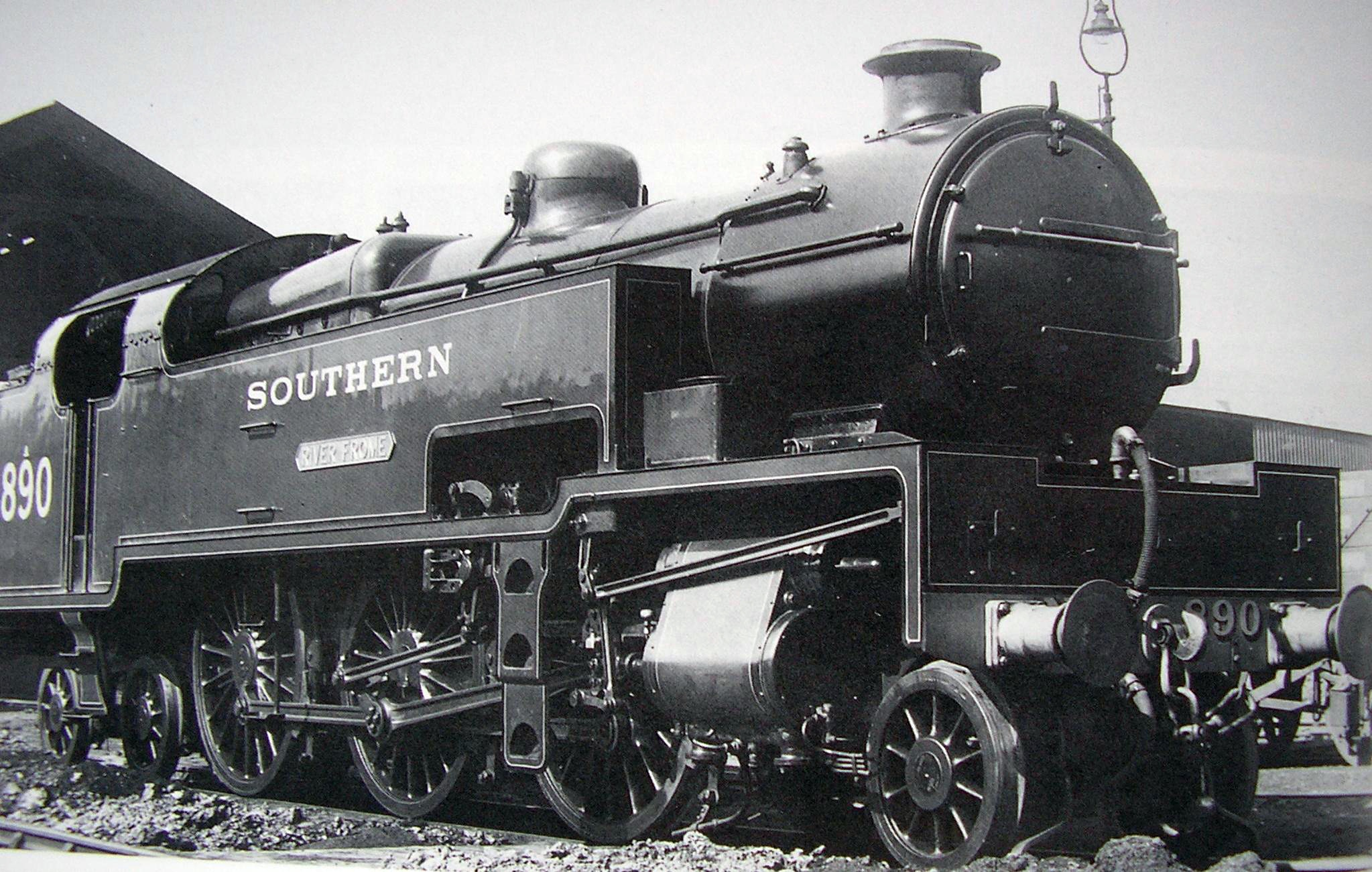 An image of the prototype K1 class locomotive from the Ian Allan Ltd. collection, now under the custodianship of the British National Railway Museum, with which the copyright currently rests. The museum is a non-departmental public body sponsored by the Department for Culture. The image was taken in July 1927 at Bricklayer's Arms locomotive shed, London. (Source: Haresnape, Brian: Maunsell Locomotives: A Pictorial History (Hinckley: Ian Allan, 1963), pp. 66-67.